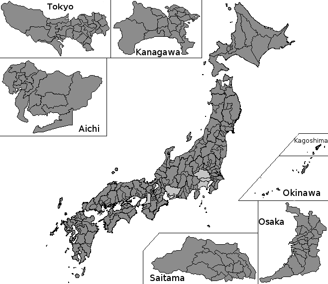 Map of Districts of the Japanese House of Representatives